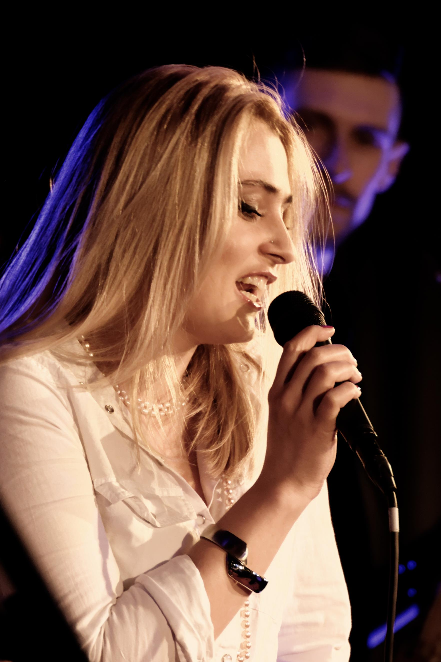 Anna Rejda